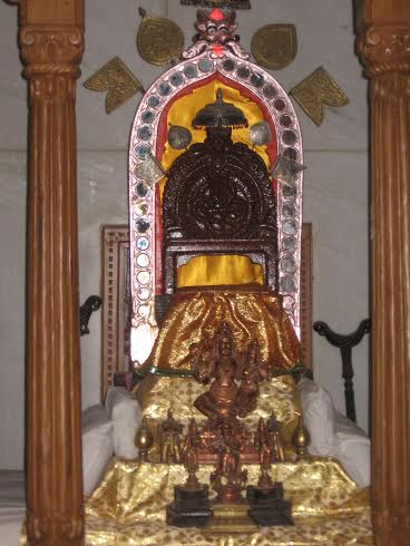 babaji maharaj akola